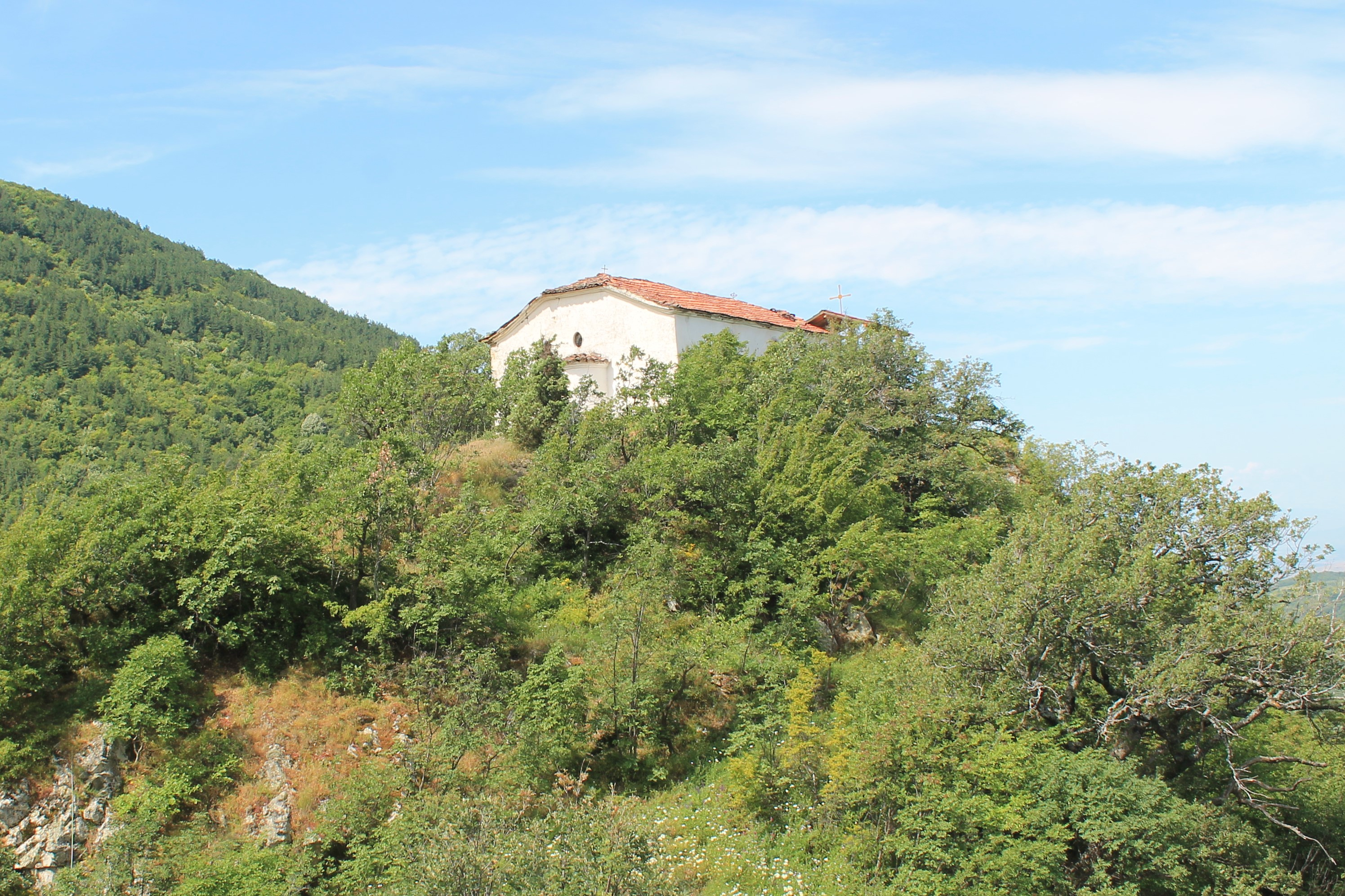 The church "St. Athanasius" in the village Belyovo, Southwestern Bulgaria